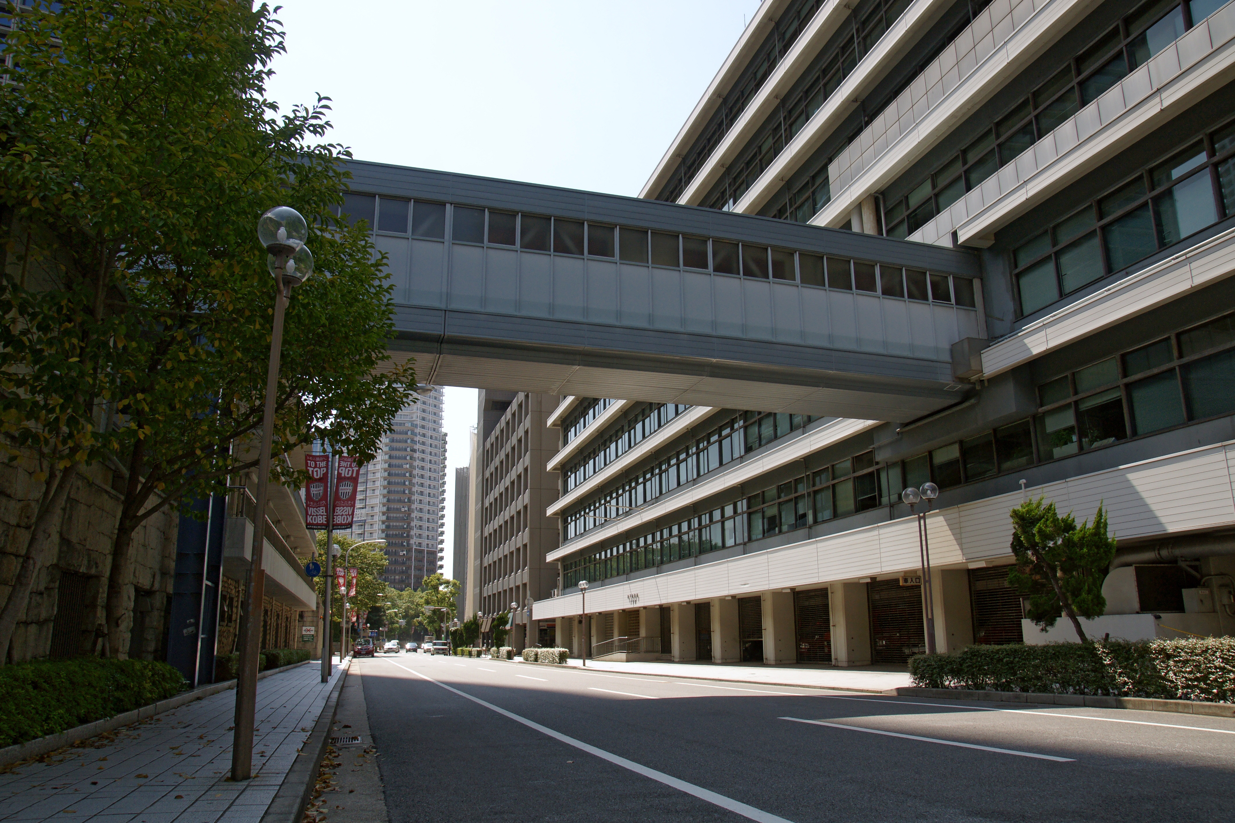 Kobe City Hall, Kobe, Hyogo prefecture, Japan